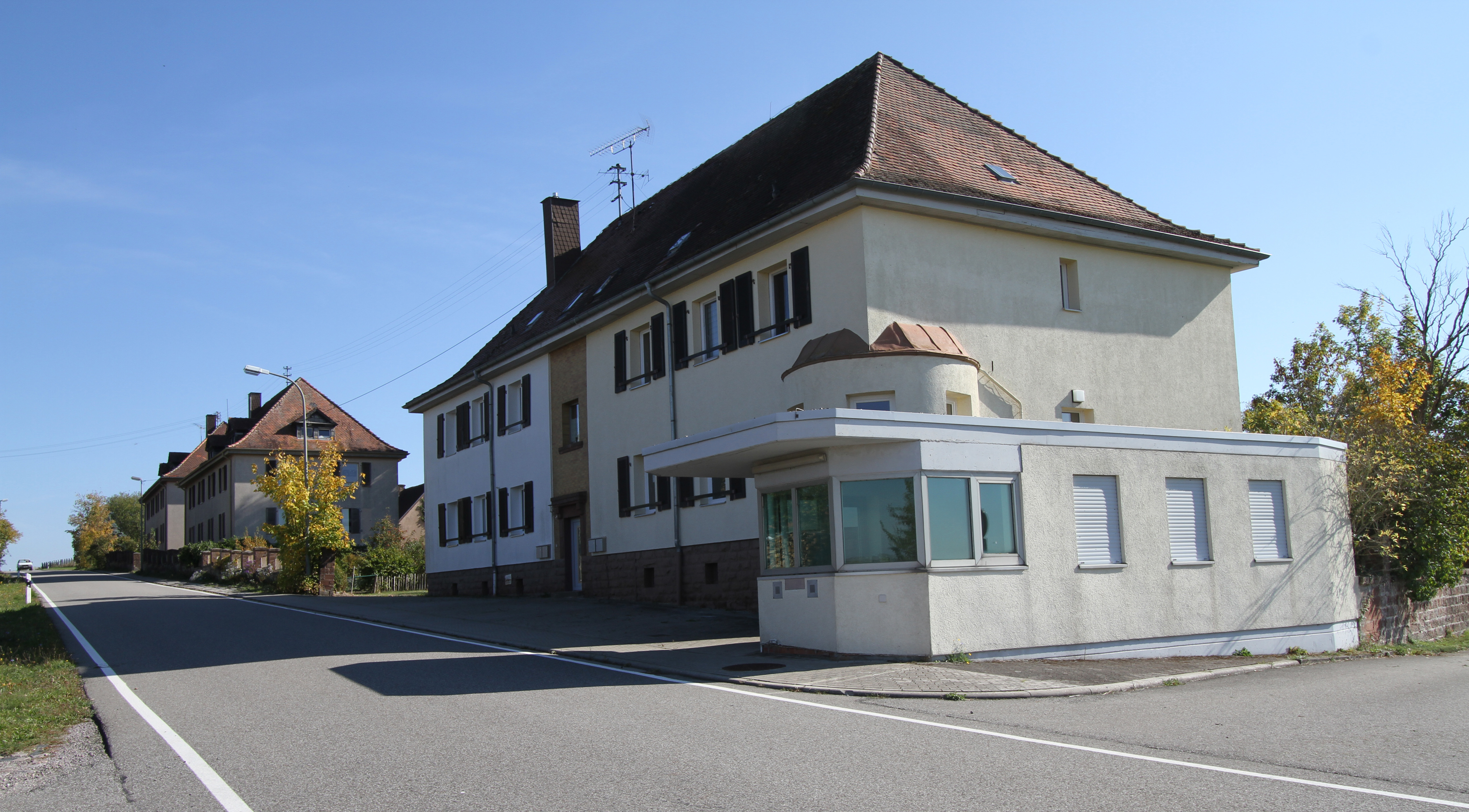 Former customs station Kröppen.